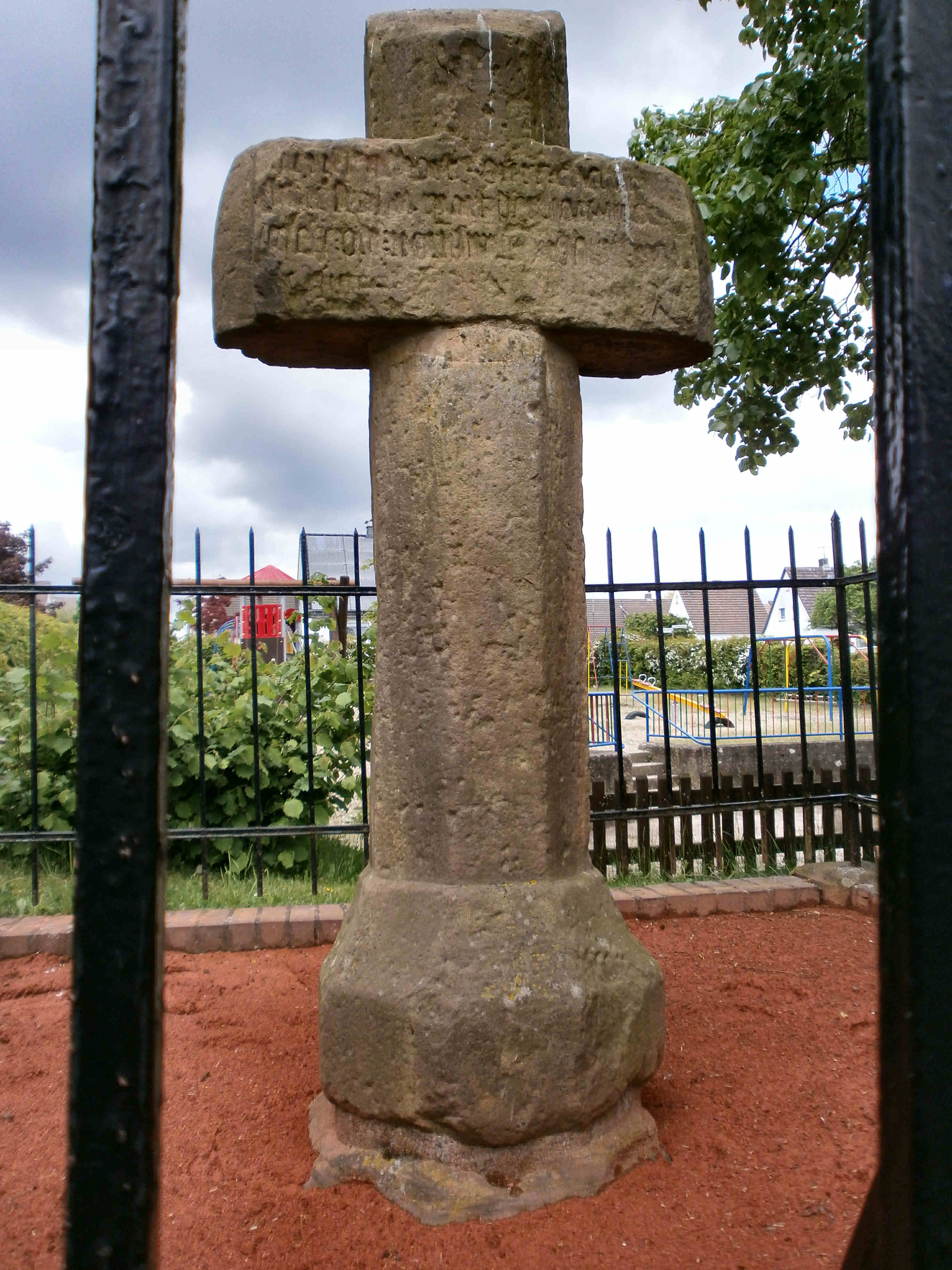 Kaiserkreuz in Kleinenglis